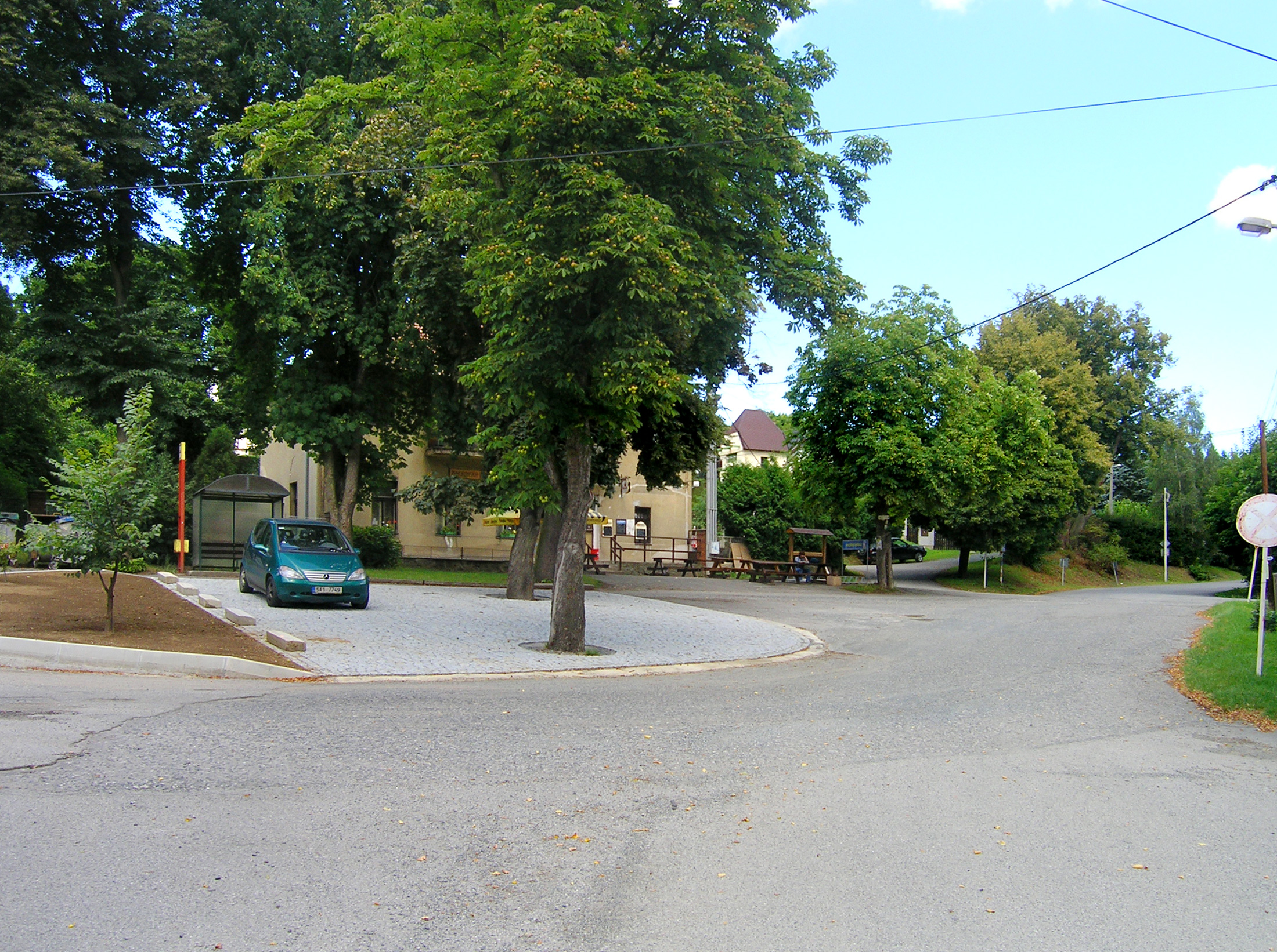 Zahořany, part of Okrouhlo village, Czech Republic